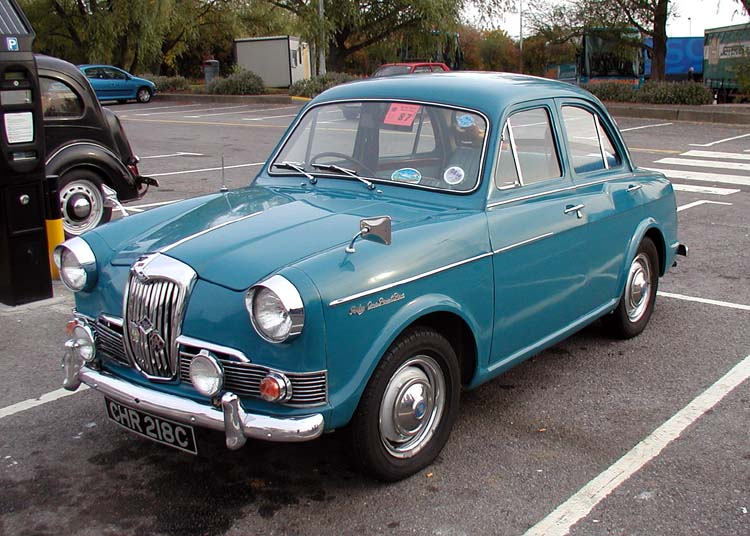 1965 Riley 1.5 Saloon at a Classics Rally in Bristol, England.